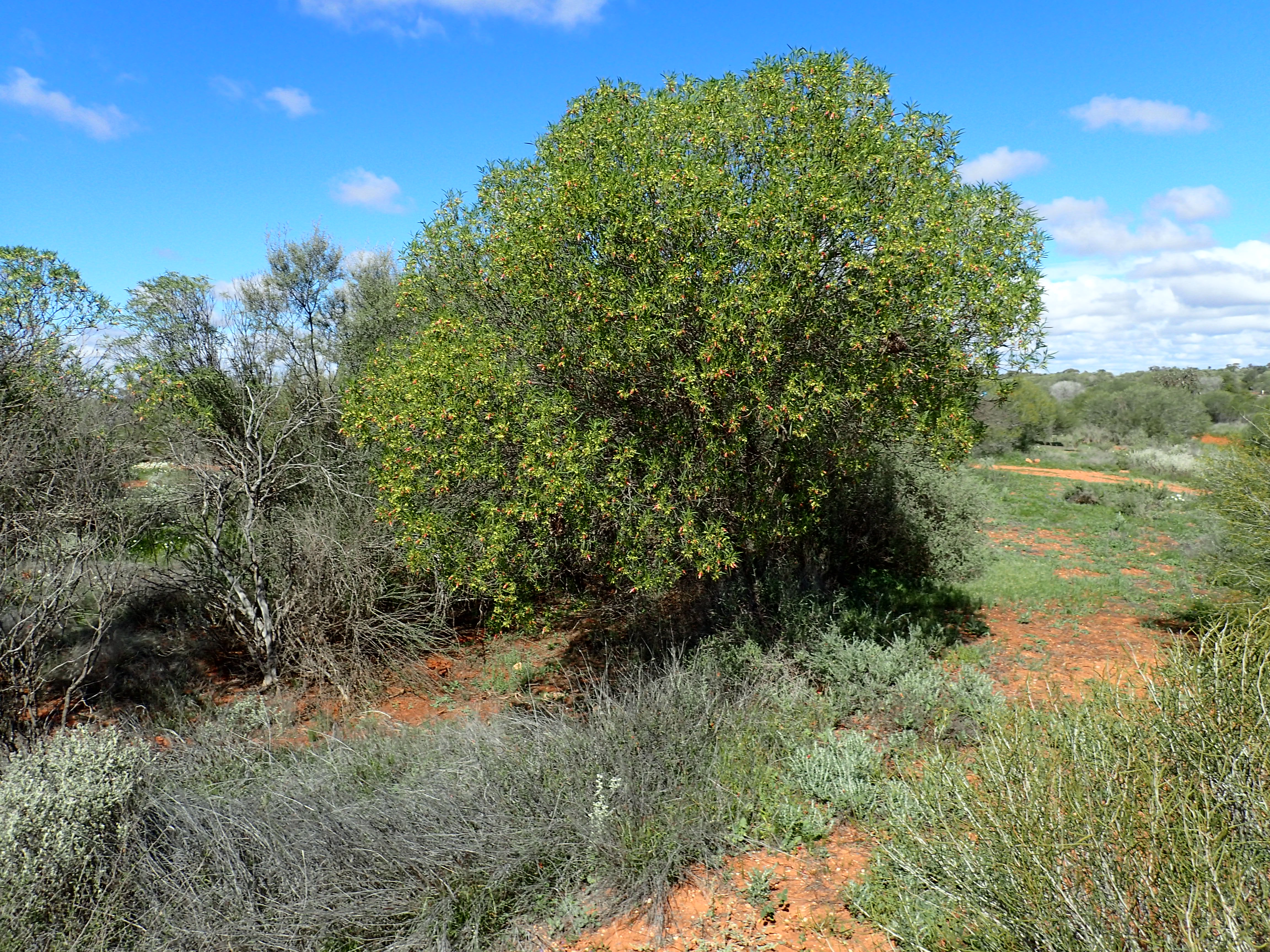 Eremophila oldfieldii oldfieldii 35 km north of vermin fence on NW Coastal Highway